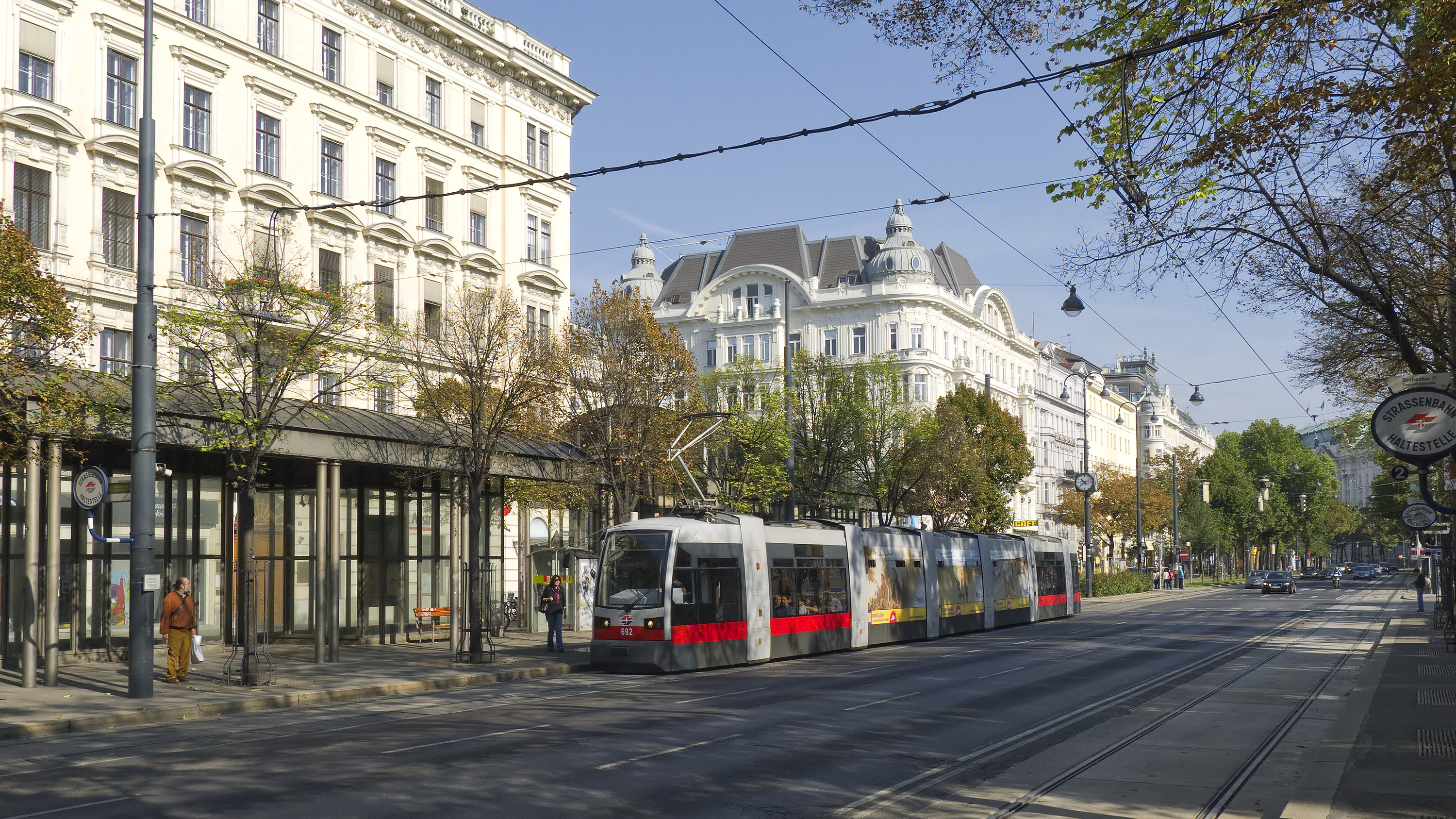 Tram Line 2, Station Stubentor, Vienna